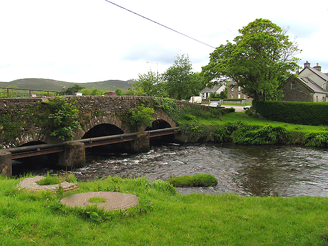 Bridge over the Owenascaul River in Anascaul. This square consists of roads, a river, pastureland and residences. The bridge lies in the north western corner of the square and is viewed here from the northern side.